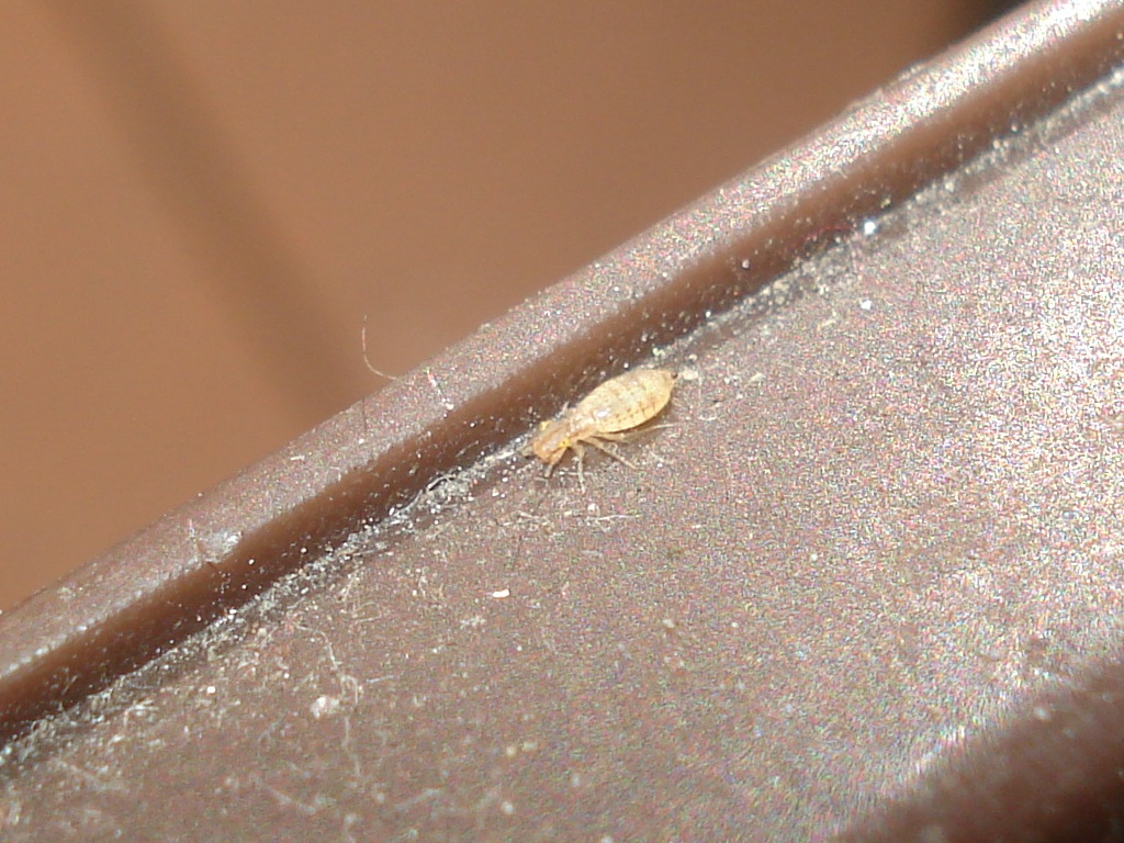 Trogium pulsatorium